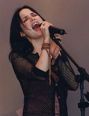 Andrea Corr at Glastonbury Festival, June 27, 1999.